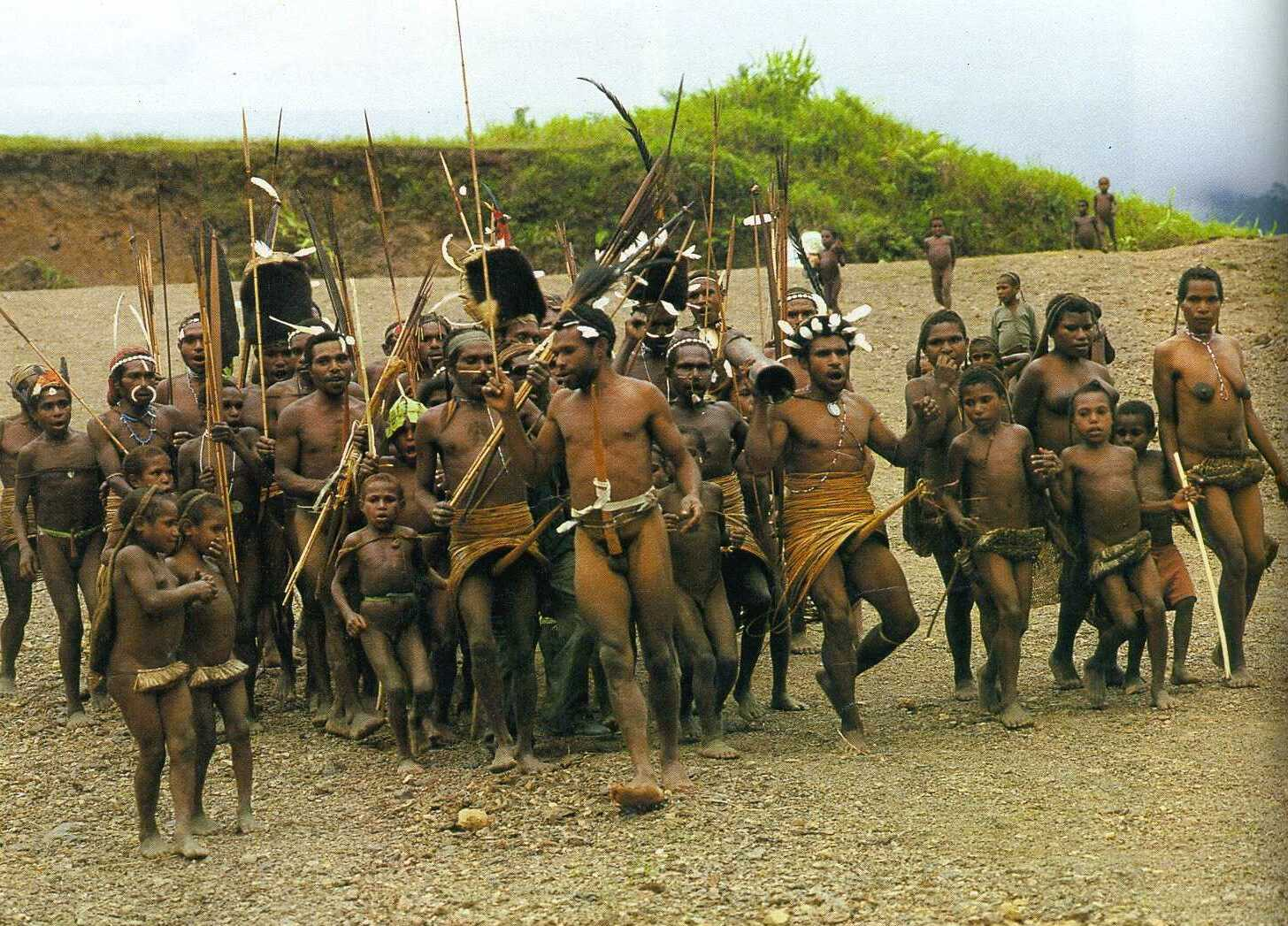 Jally Cultural Society